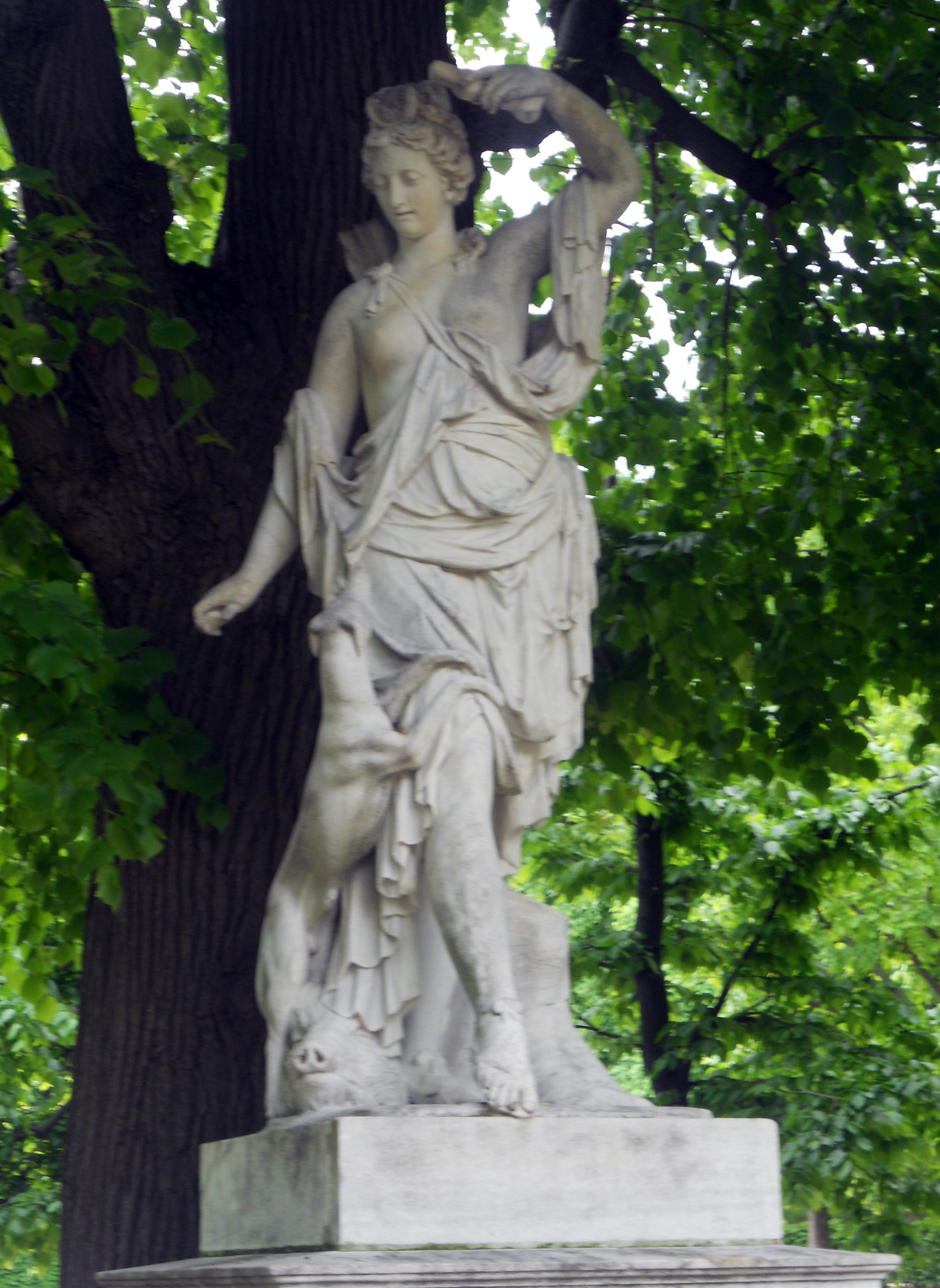 Diana in the Schönbrunn Garden